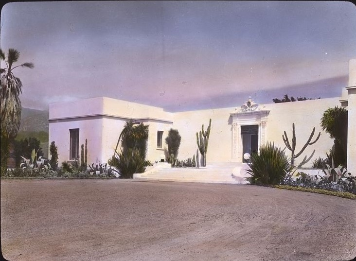 Title ["Solana," Frederick Forrest Peabody house, Eucalyptus Hill Road, Montecito, California. Entrance Drive] Contributor Names Johnston, Frances Benjamin, 1864-1952, photographer Created / Published [1917 spring] Subject Headings - Houses--California--Montecito--1910-1920 - Gardens--California--Montecito--1910-1920 Format Headings Lantern slides--Hand-colored--1910-1920. Notes - Site History. House Architecture: Francis Townsend Underhill, built 1913-1914. Landscape: Charles Frederick Eaton, from 1906. Associated Name: Katherine Burke (Mrs. Frederick Forest) Peabody. Today: Garden subdivided. Monterey court. - Slide used with lecture "California Gardens." - On slide: Red-edge square sticker. - Title, date, and subject information provided by Sam Watters, 2011. - Forms part of: Garden and historic house lecture series in the Frances Benjamin Johnston Collection (Library of Congress). - Published in Gardens for a Beautiful America / Sam Watters. New York: Acanthus Press, 2012. Plate 131. Medium 1 photograph : glass lantern slide, hand-colored ; 3.25 x 4 in. Call Number/Physical Location LC-J717-X98- 31 [P&P] Repository Library of Congress Prints and Photographs Division Washington, D.C. 20540 USA Digital Id ppmsca 16105 //hdl.loc.gov/loc.pnp/ppmsca.16105 Library of Congress Control Number 2007685031 Reproduction Number LC-DIG-ppmsca-16105 (digital file from original item) Rights Advisory No known restrictions on publication. Online Format image Description 1 photograph : glass lantern slide, hand-colored ; 3.25 x 4 in. LCCN Permalink